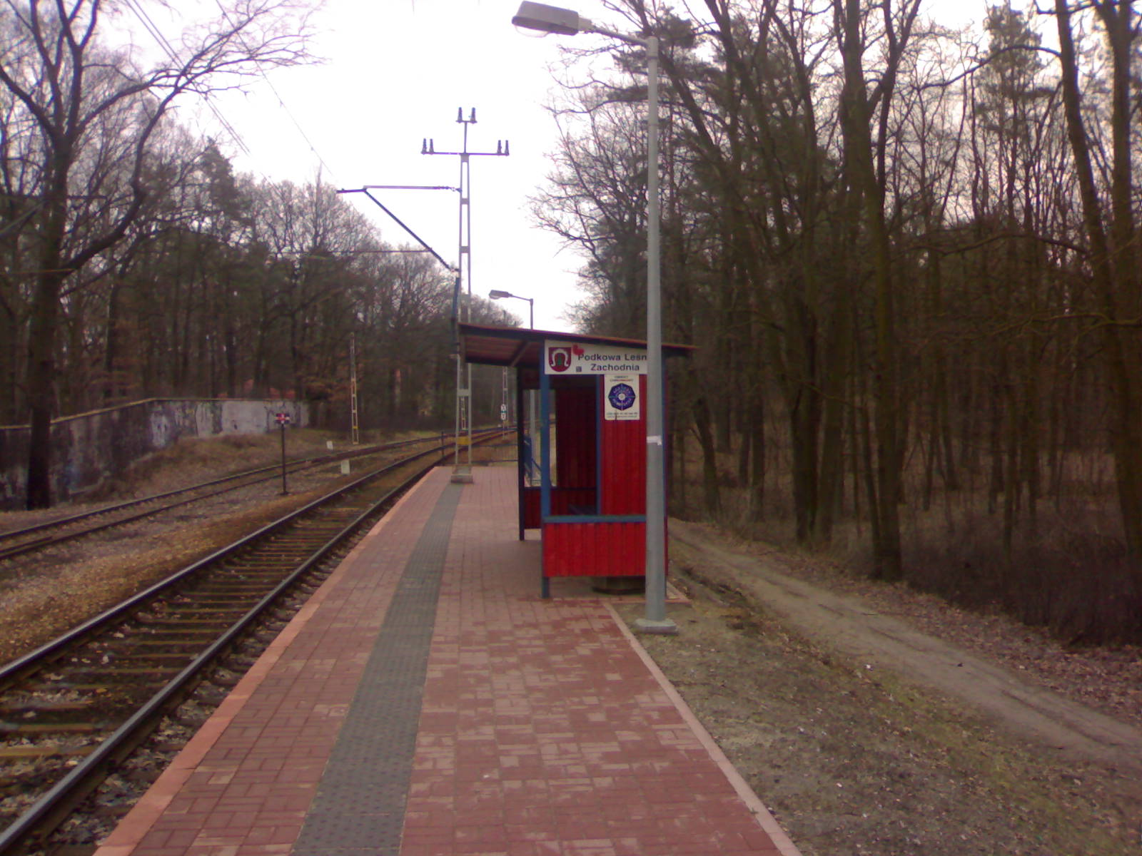 Podkowa Leśna Zachodnia commuter train station.